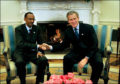 President George W. Bush meets with President Paul Kagame of Rwanda in the Oval Office Tuesday, March 4, 2003.